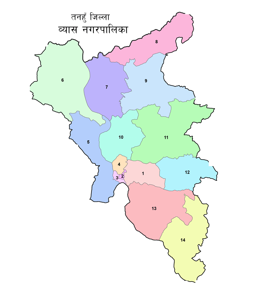 Byas Municipality